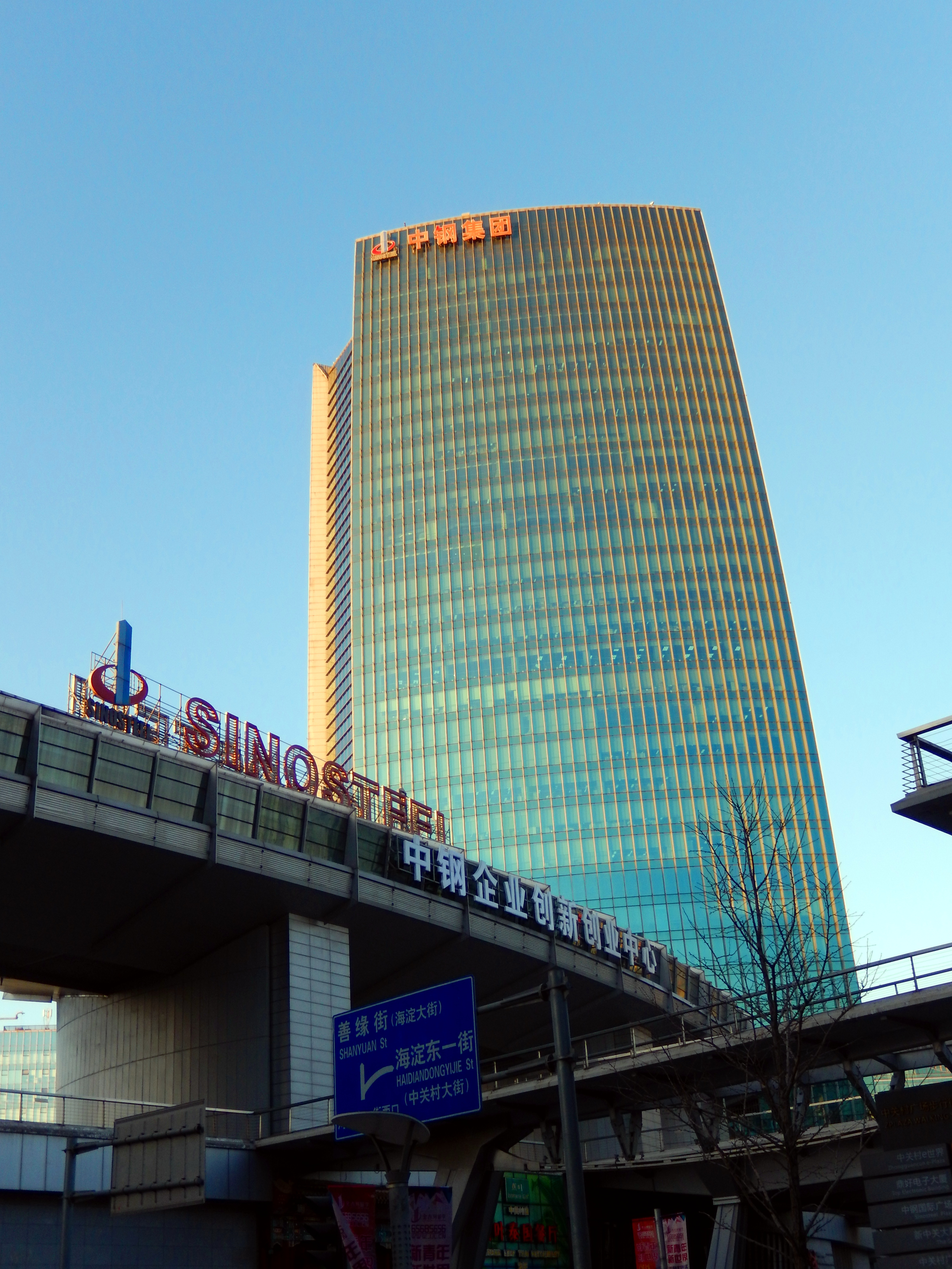 Sinosteel's Headquarters viewed from Z Plaza Walking Street.